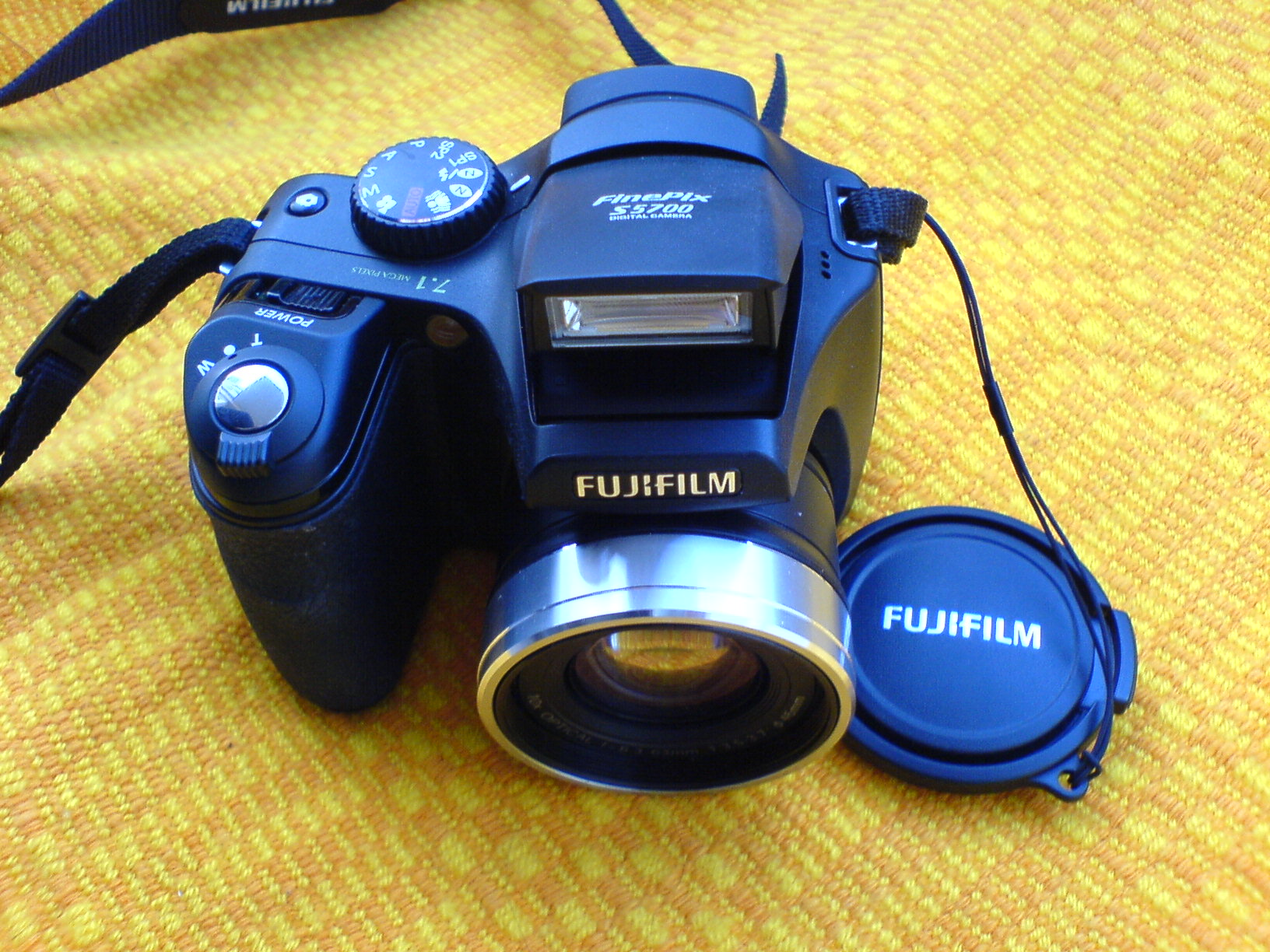 Fujifilm FinePix S5700 Digital camera (black) - front view